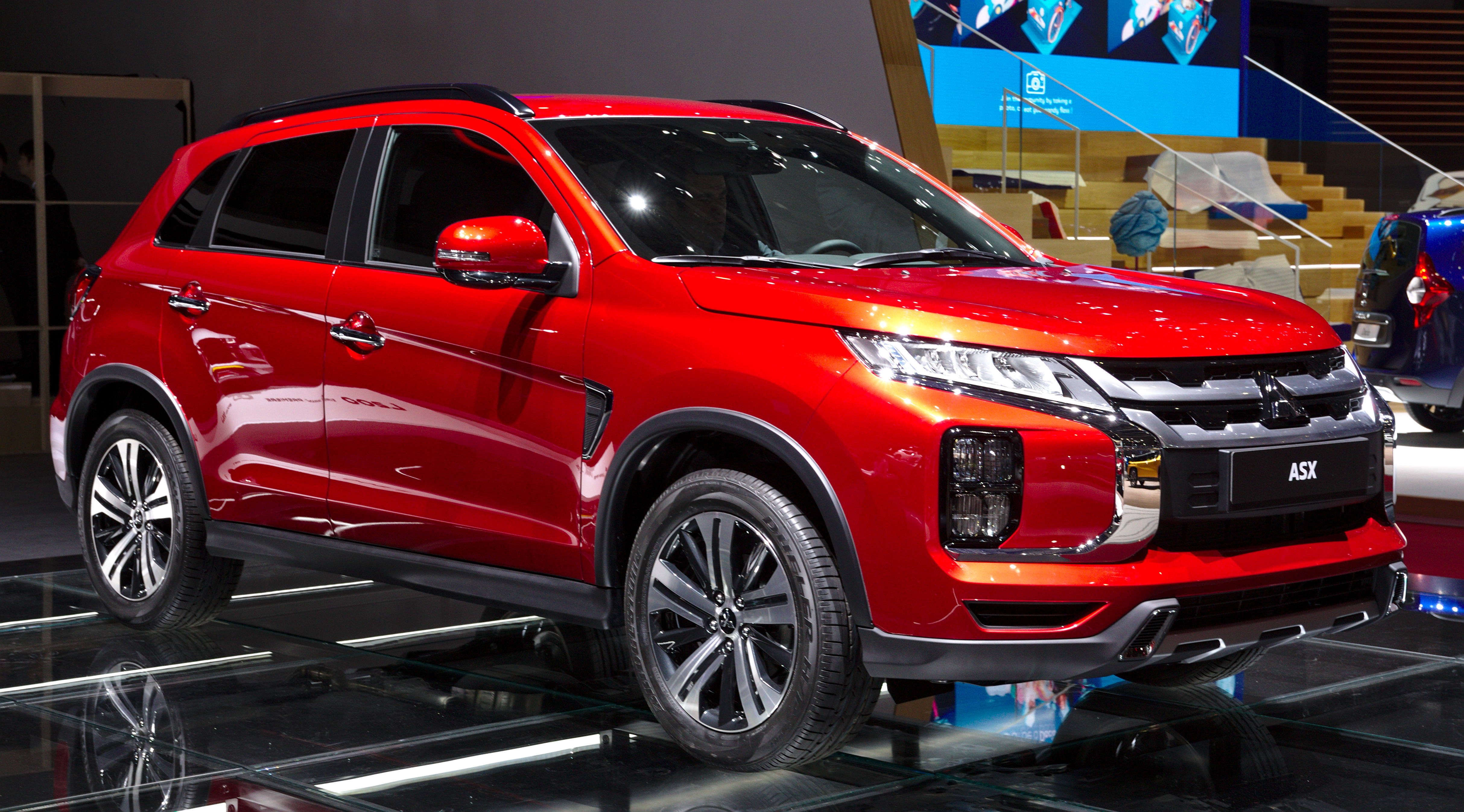 Mitsubishi ASX at Geneva Motor Show 2019